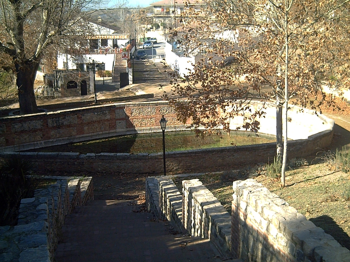 "Fuente Grande" spring in Alfacar a village at Granada province, Spain